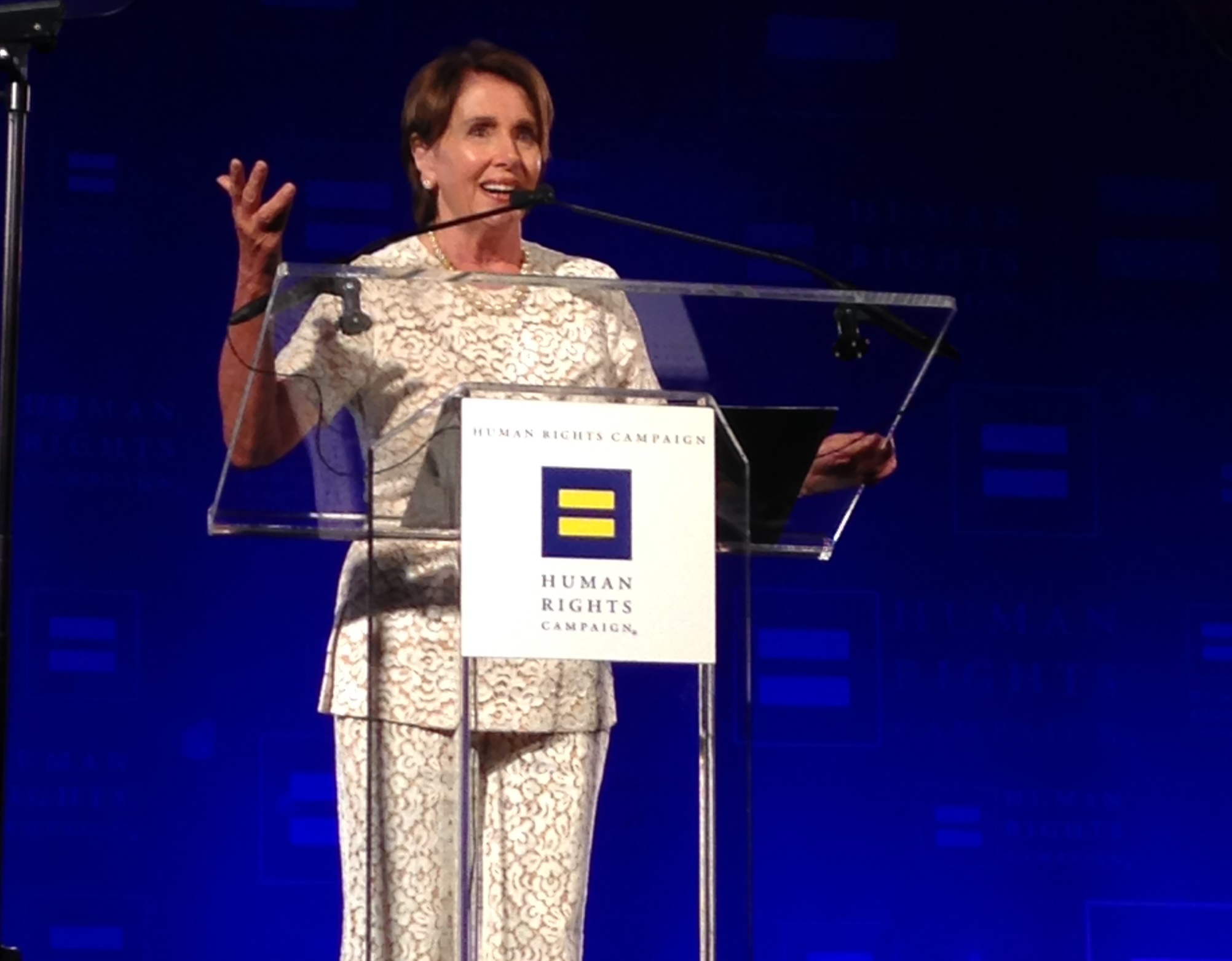 Congresswoman Nancy Pelosi celebrates major movements toward achieving equality for the LGBT community at the 30th Annual San Francisco Bay Area HRC Gala Dinner.